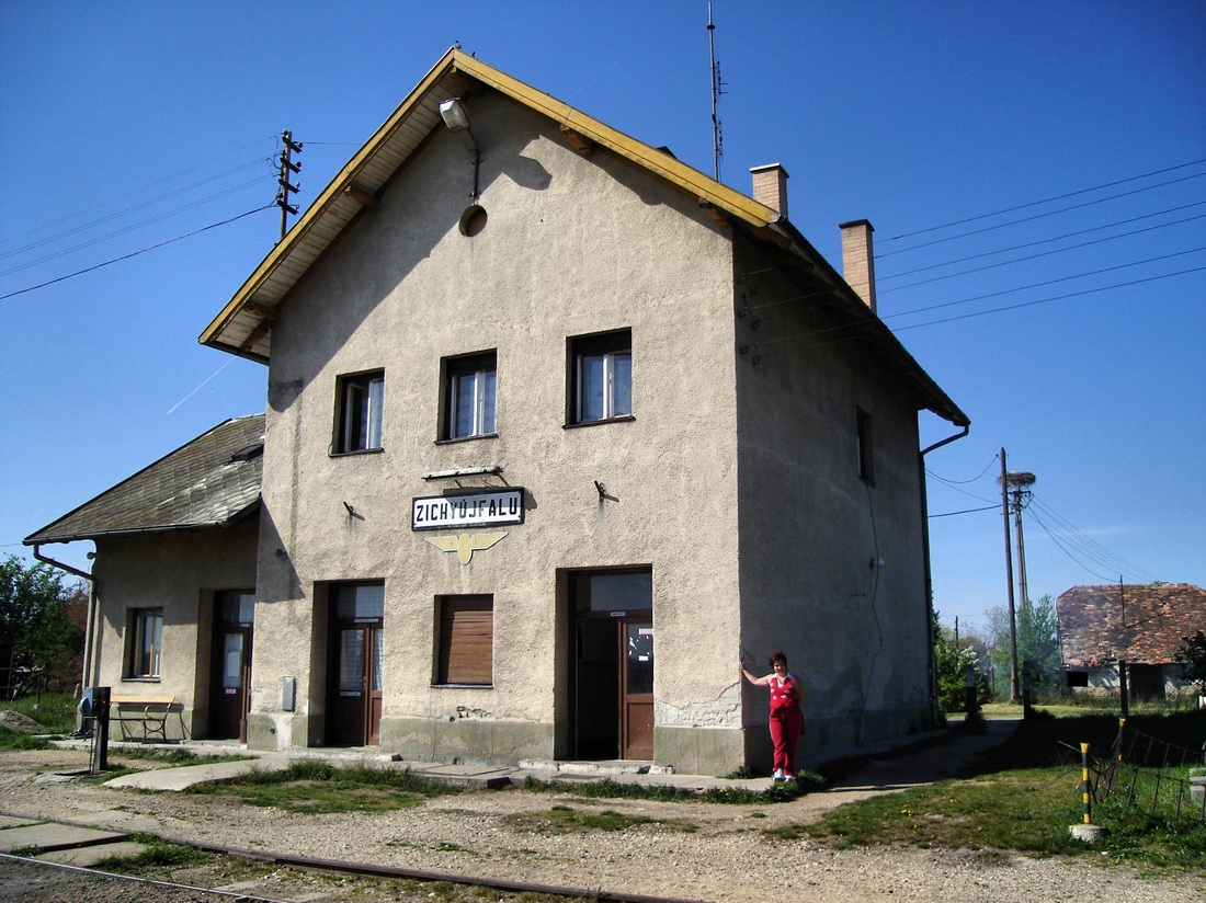 Zichyújfalus's train station